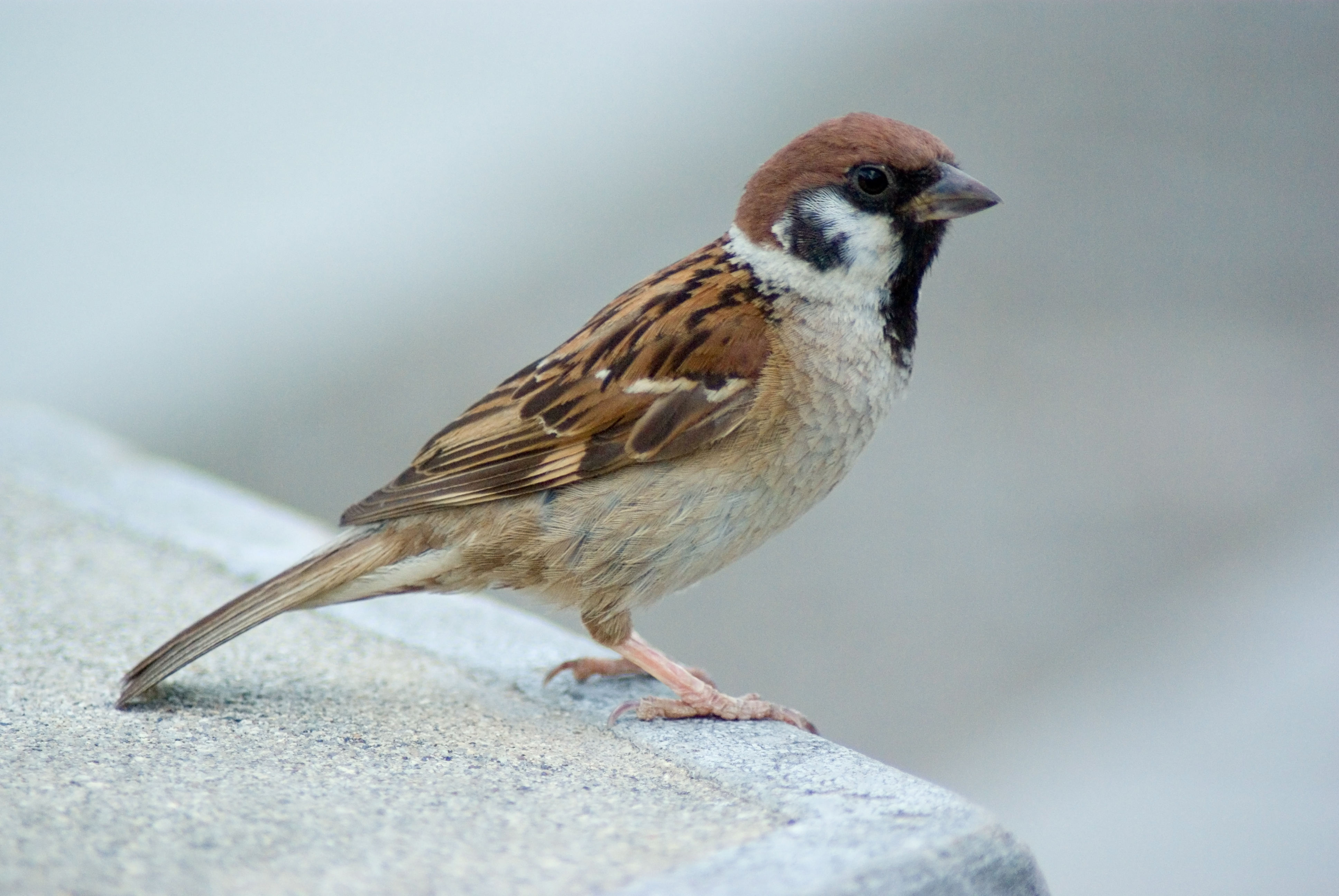 Tree Sparrow